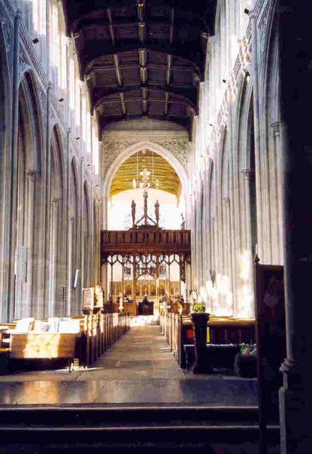 Saffron Walden - St. Mary's Church interior I snuck a peak in the door of St. Mary's and snapped this photo. While I was wandering about the Church and grounds the church choir had been practising. It was amazing to have been accompanied by such a beautiful and ethereal sound whilst I was sightseeing. Some things you just can't put into a photograph.